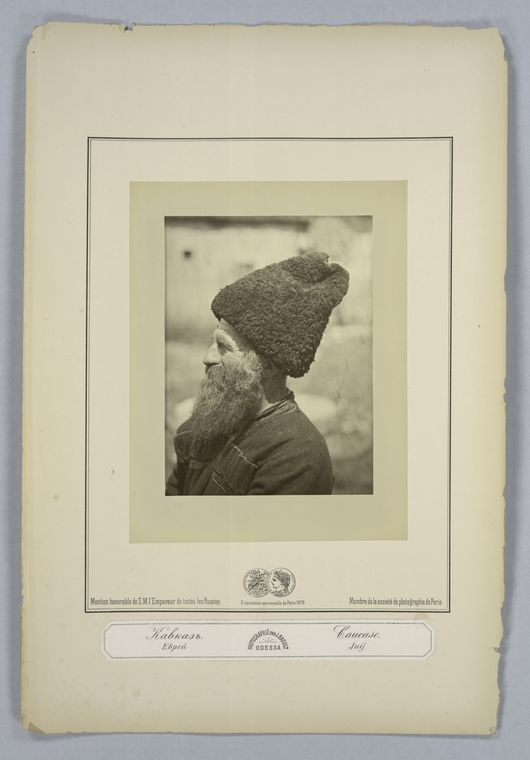 Caucasus. Jew. Image description: Kavkaz. Evrei.